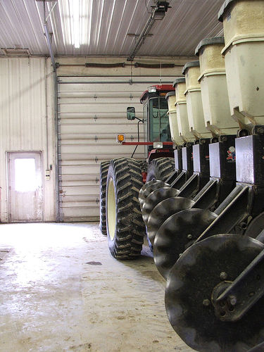 A tractor with a seeder used for agriculture, 60 feet wide